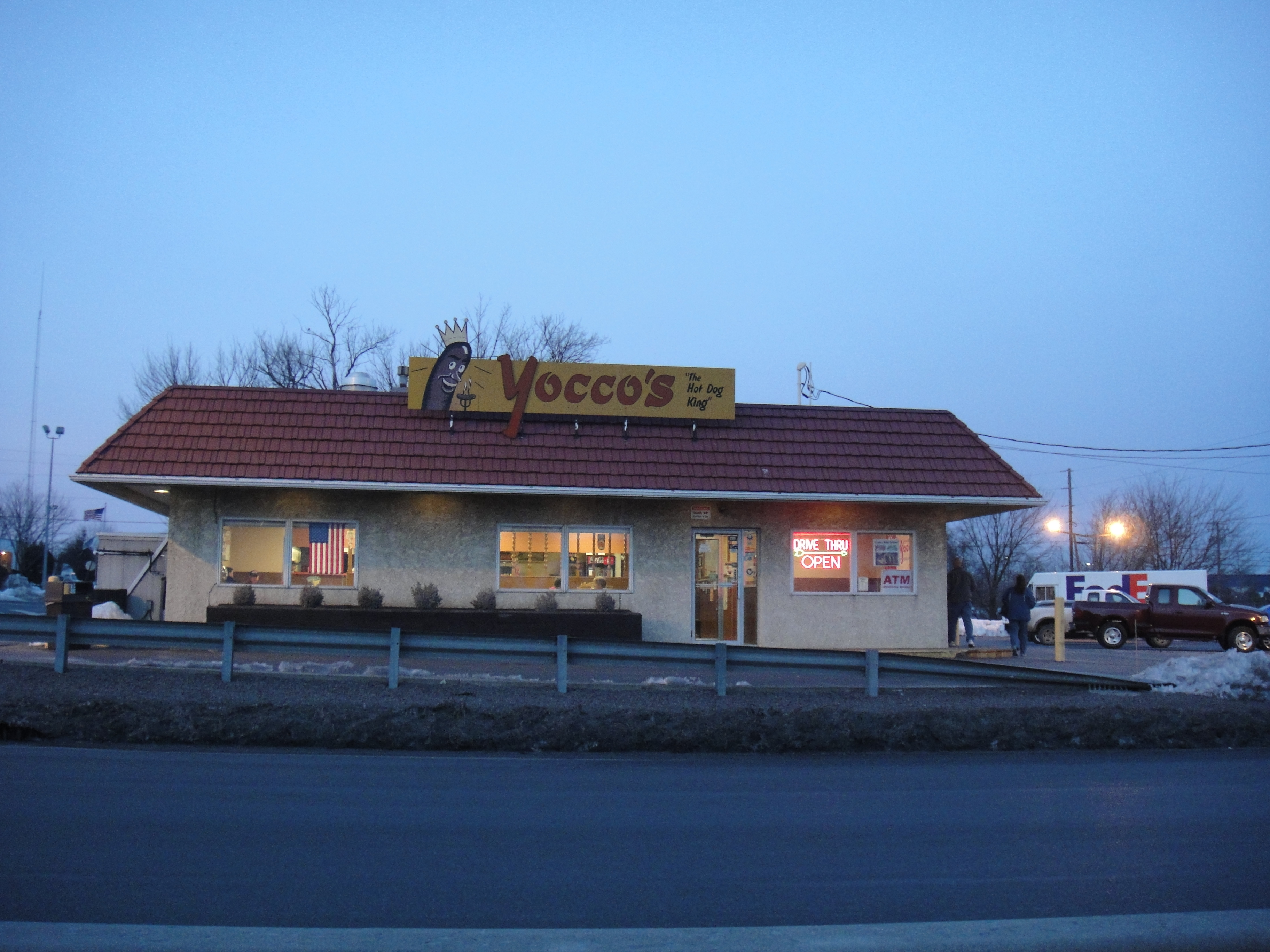 Yocco's located in Fogelsville.